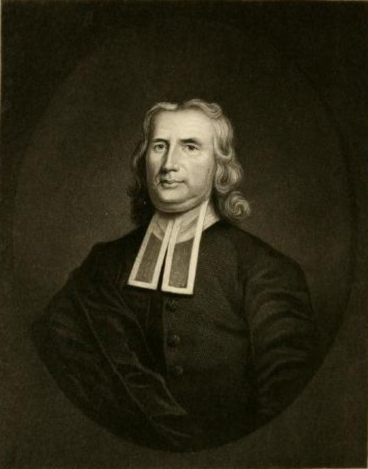 Portrait of Rev. Samuel Phillips, first pastor of the South Church in Andover, Massachusetts, by John Greenwood.